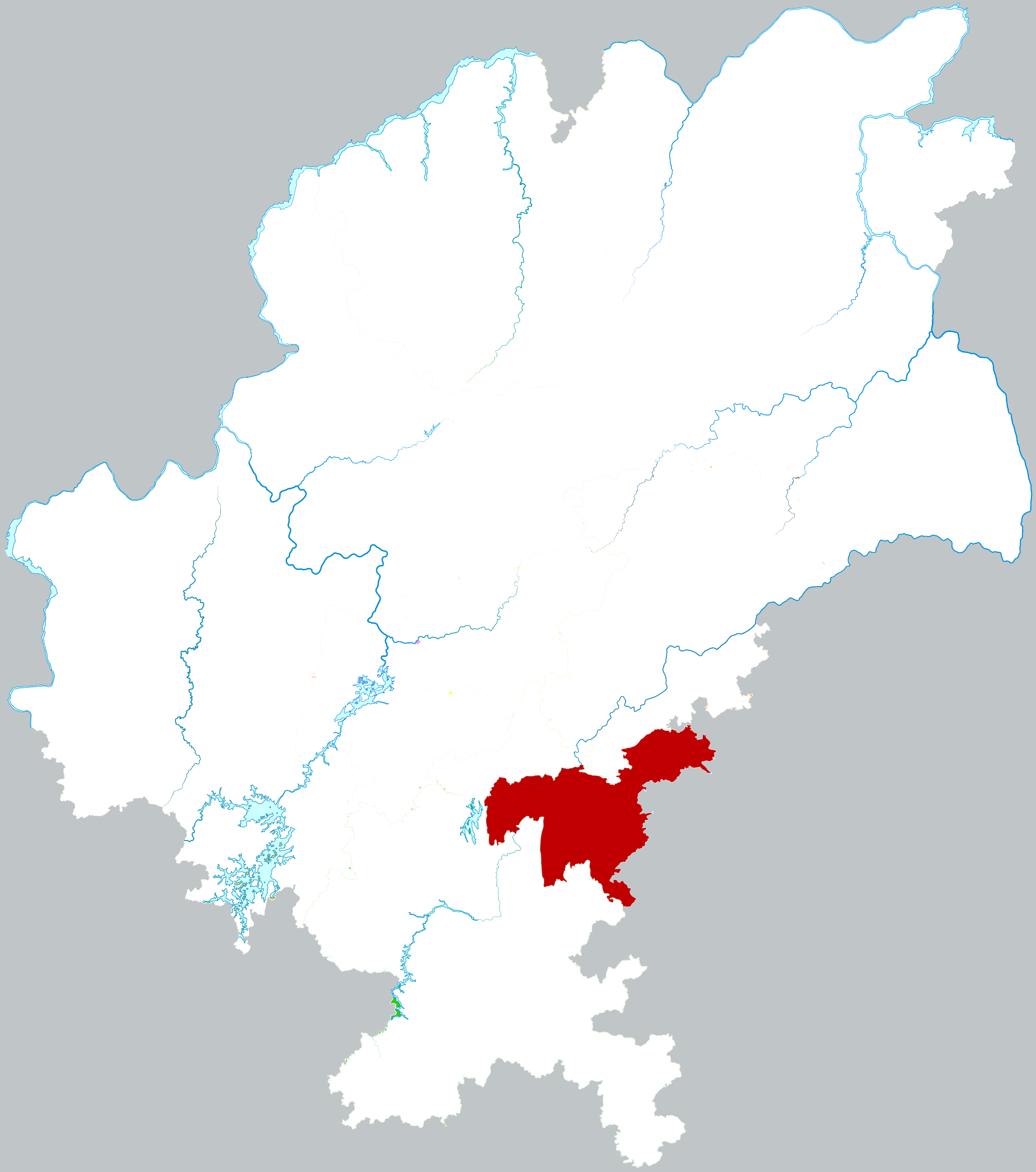 Location of Nanming district in Guiyang city, China